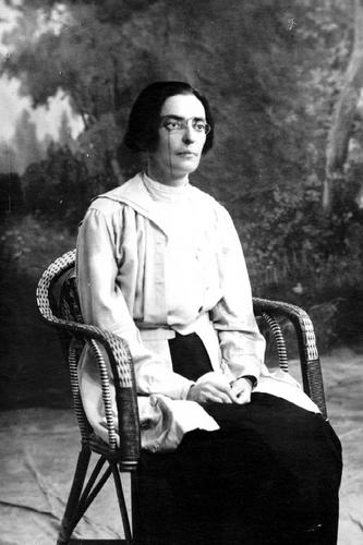 A photo of Ira Jan in New Jerusalem in 1908